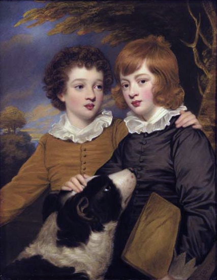 Henry Gawler (1766-1852) and his brother John Bellenden Ker (1765?-1842) holding a portfolio, as children with their dog signed on the obverse 'HBone' (lower right) and signed, dated and inscribed in full on the counter-enamel 'Decr & D. Henry Gawler & John Bellenden Ker, surviving Children of John & Caroline Gawler.- London Oct.r 1820. Painted by Henry Bone R. A. Enamel=Painter to Her Majesty after the Original picture by the late S.r Joshua Reynolds P.R.A. &c &c' enamel on copper 148 x 114 mm.